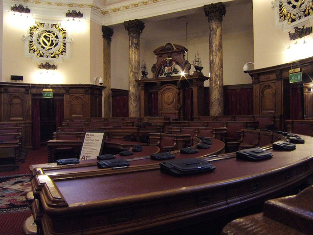 Council Chamber. This is the Council Chamber of 776675